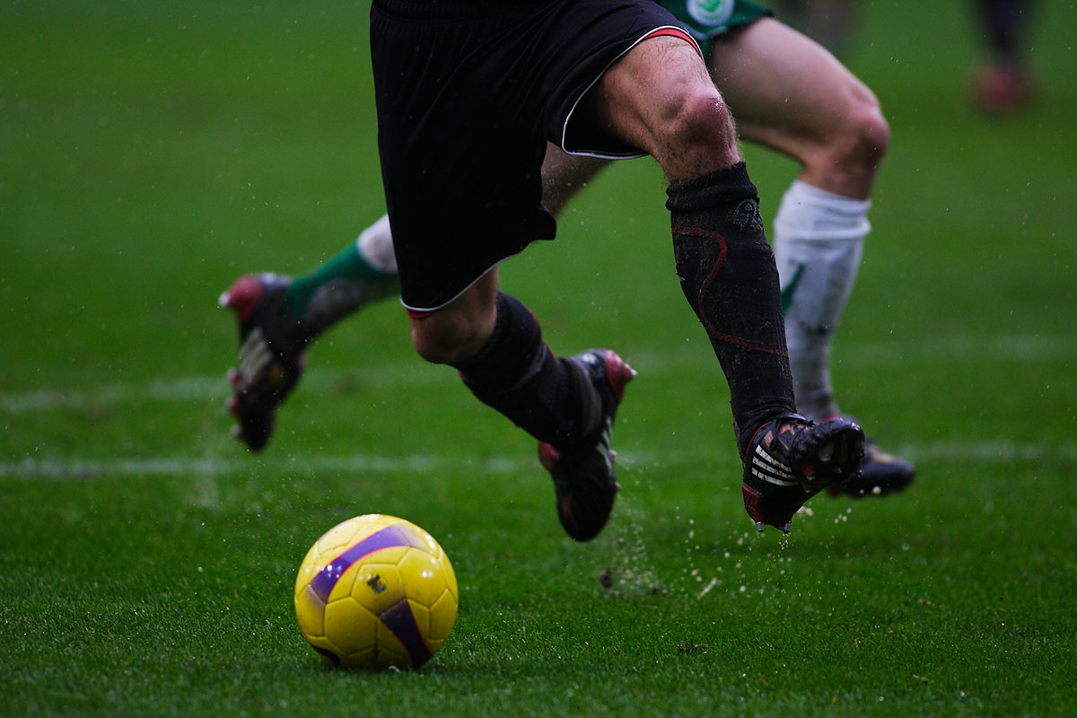 APRIL 5, 2008 - Football : 1.Bundesliga match between VfL Wolfsburg and Hannover 96 at the Volkswagen Arena on February 27, 2008 in Wolfsburg, Germany. (Photo by Tsutomu Takasu)